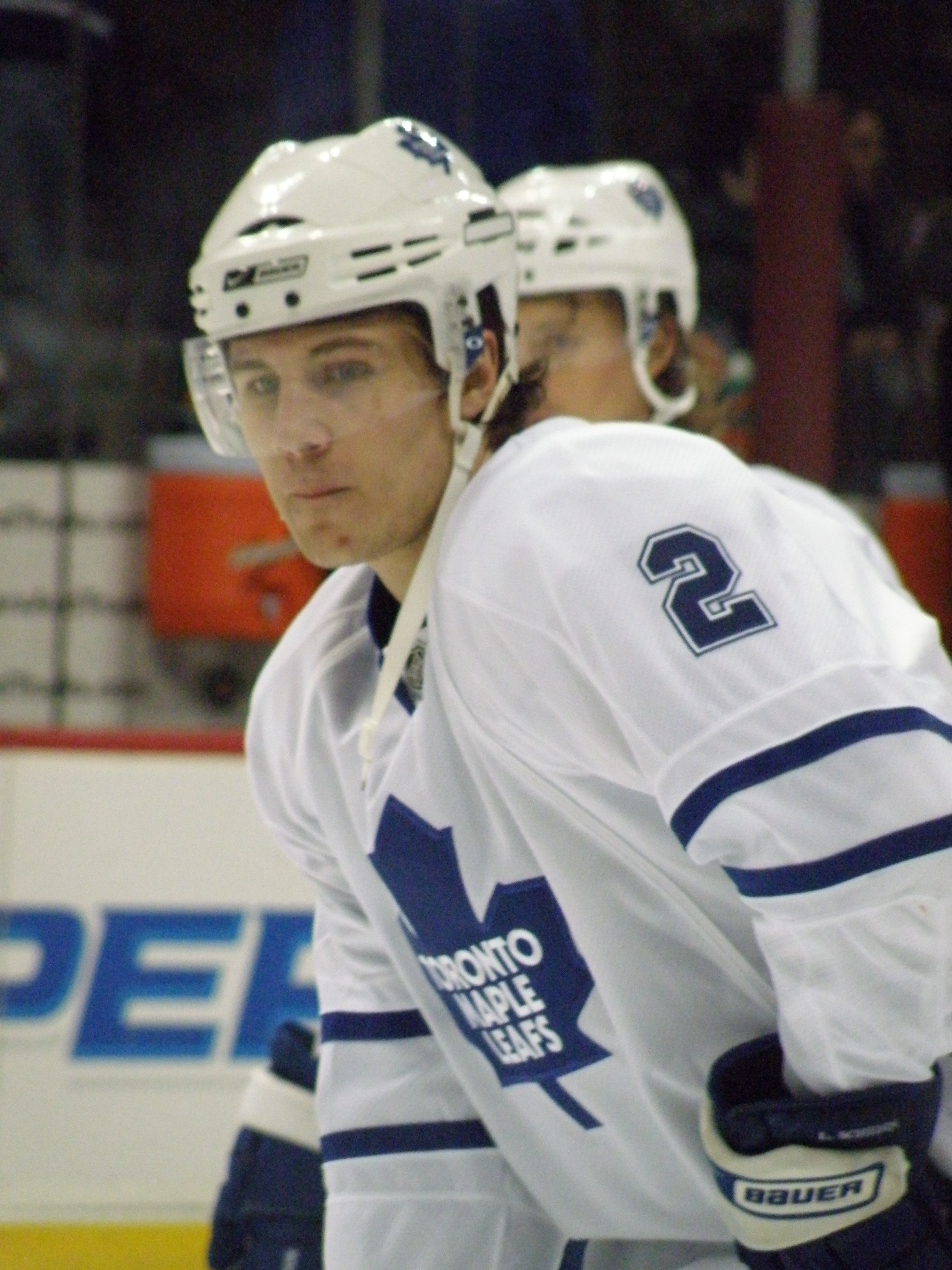 Luke Schenn or the Toronto Maple Leafs at the NHL hockey game against the Colorado Avalanche in Denver, Colorado at the Pepsi Center on January 29, 2009